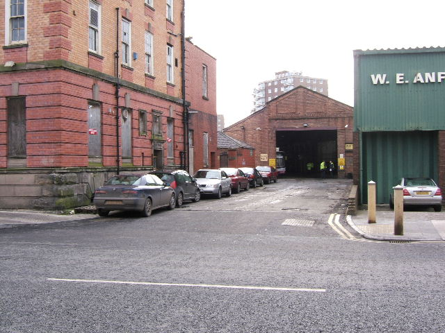 Car Street, off Station Road, Chester. Car Street leads to the old Bus Depot, that dates back to 1878 and was used in both the horse and tram days, there are still some cobbles and original narrow gauge tram-lines in the middle of the street. See 702154 and 702139 Formerly Chester City Transport, the operation has been sold to the First Group